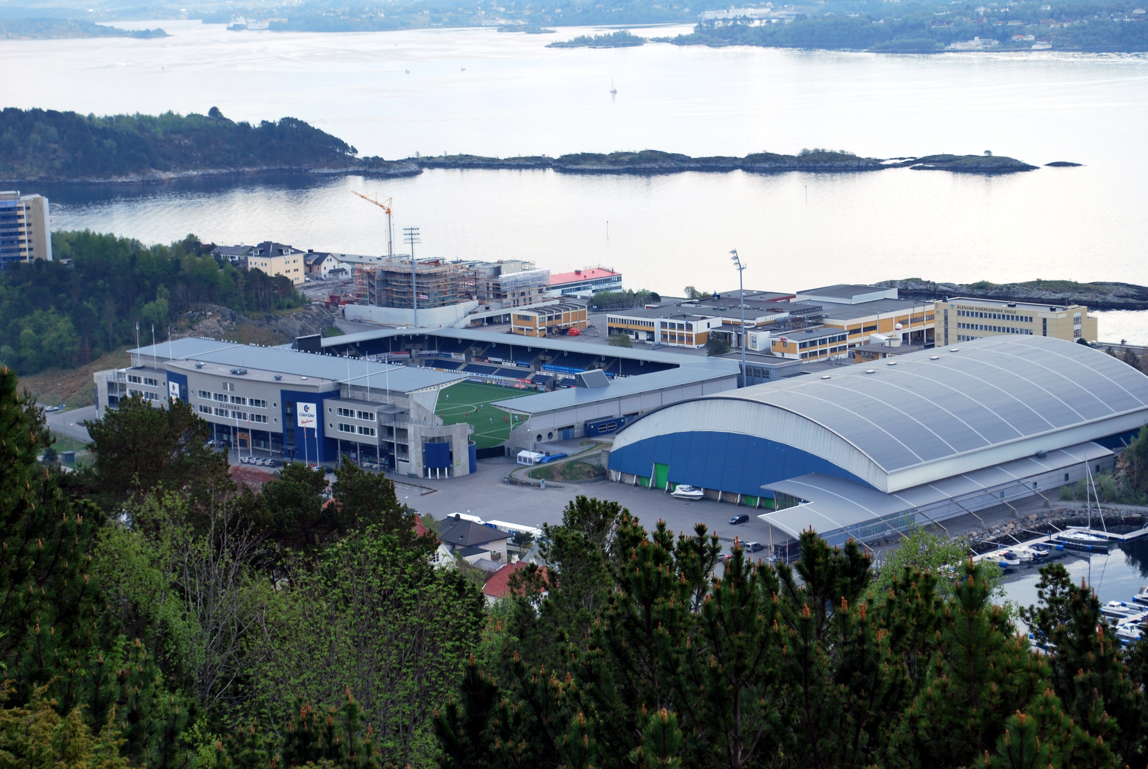 Color Line Stadion and Sunnmørshallen, Ålesund.